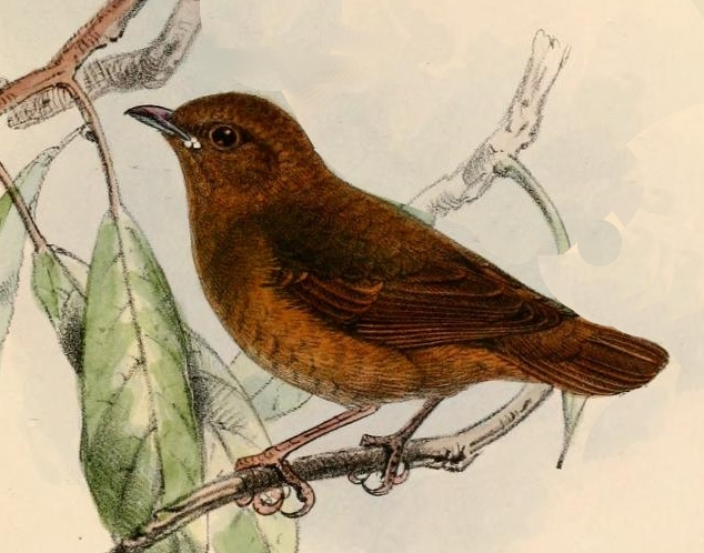 Woodhouse's Antpecker fledgling